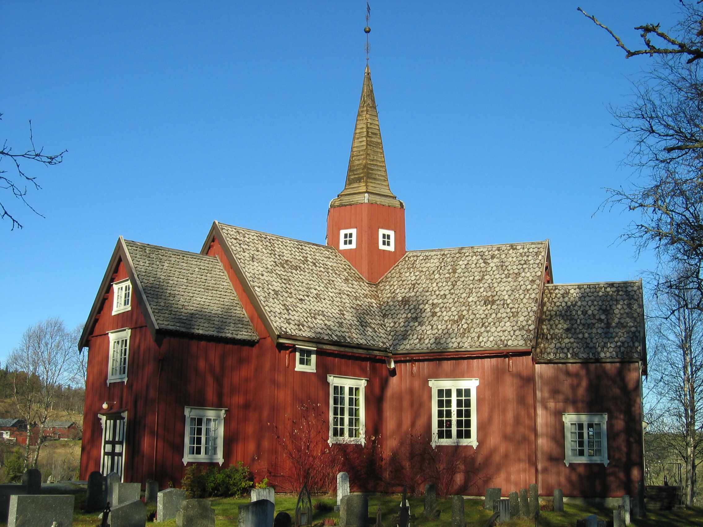 Budal Church, Midtre Gauldal, Sør-Trøndelag, Norway. Norwegian: Budal kyrkje, Midtre Gauldal, Sør-Trøndelag, Noreg.